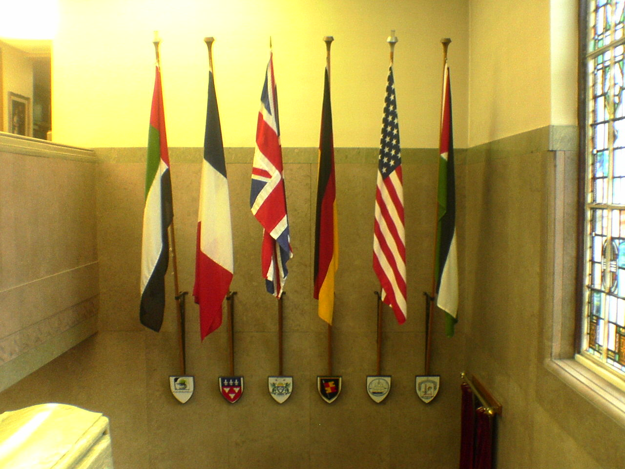 The arms/logos of the twin cities of Dundee, and their national flags, in the City Chambers.